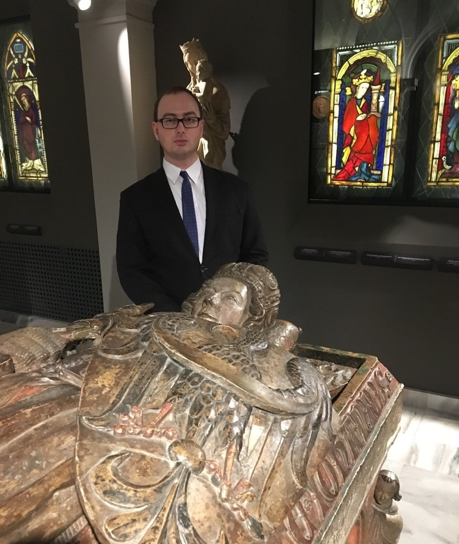 Dr. Paszyński at the National Museum in Wrocław (Polish: Muzeum Narodowe we Wrocławiu)